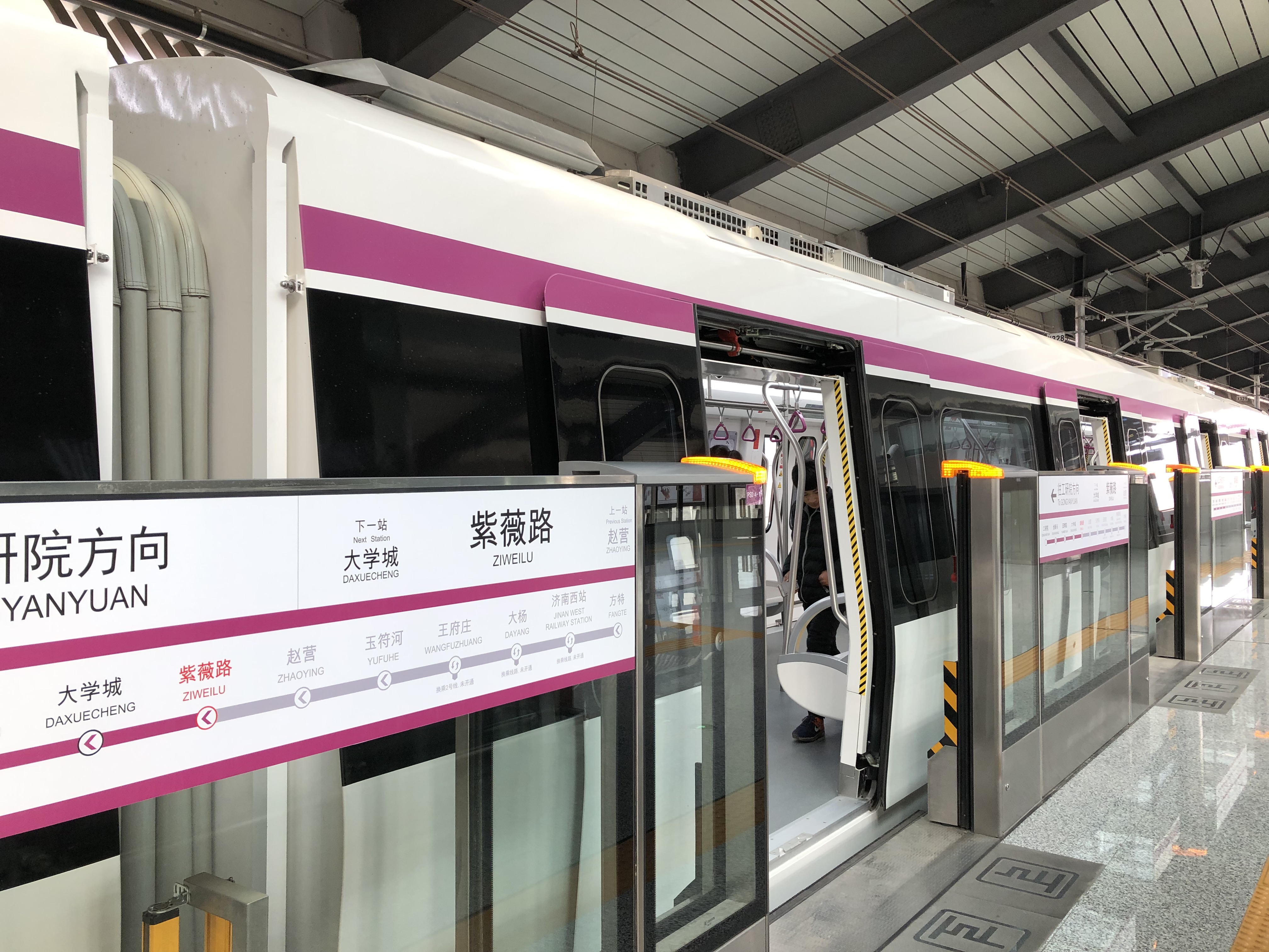 Ziwei Road Station.